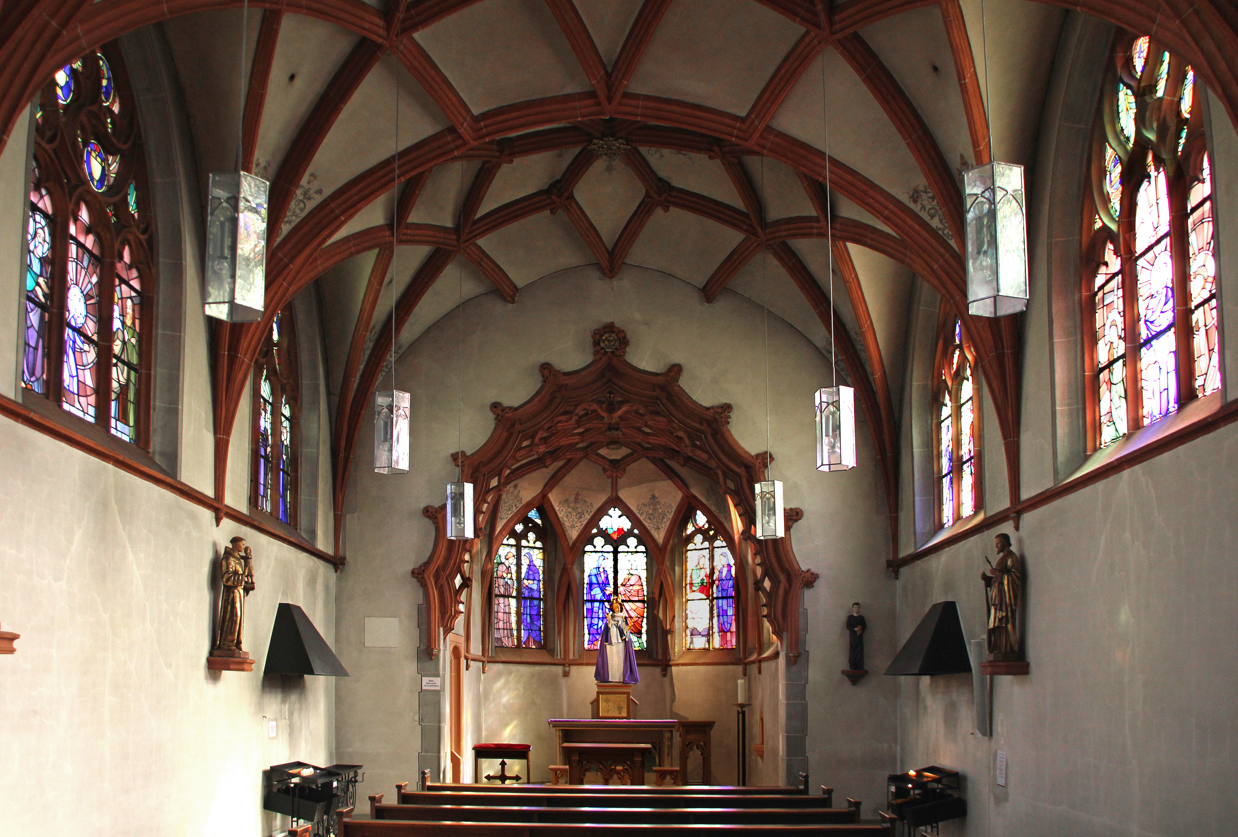 Maria Hilf chapel in Koblenz